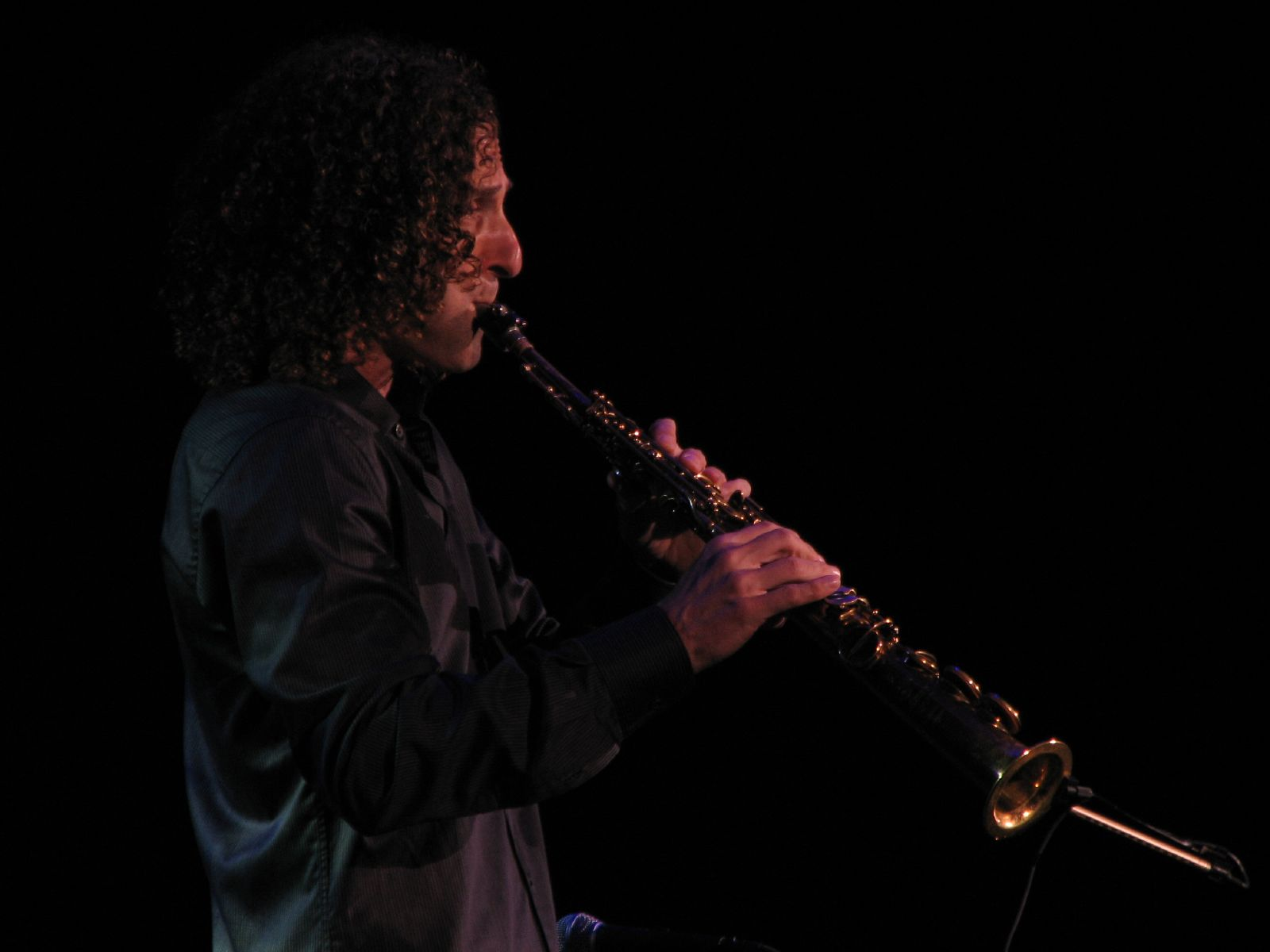 Saxophonist Kenny G. This photo was taken on March 29, 2007 in Jing An Si, Shanghai, Shanghai, CN, using a Canon PowerShot S3 IS.